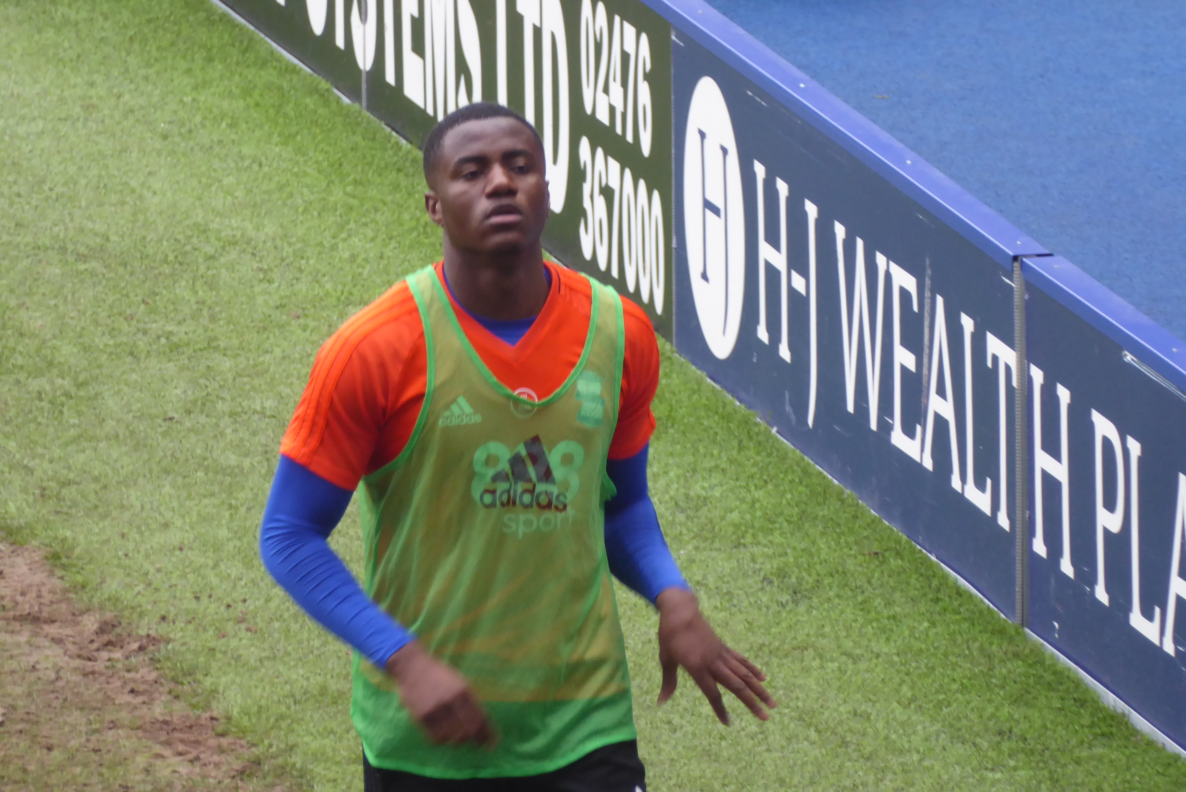 Beryly Lubala warming up on his first appearance in a Birmingham City F.C. matchday squad, during the EFL Championship match at St Andrew's on 7 April 2018